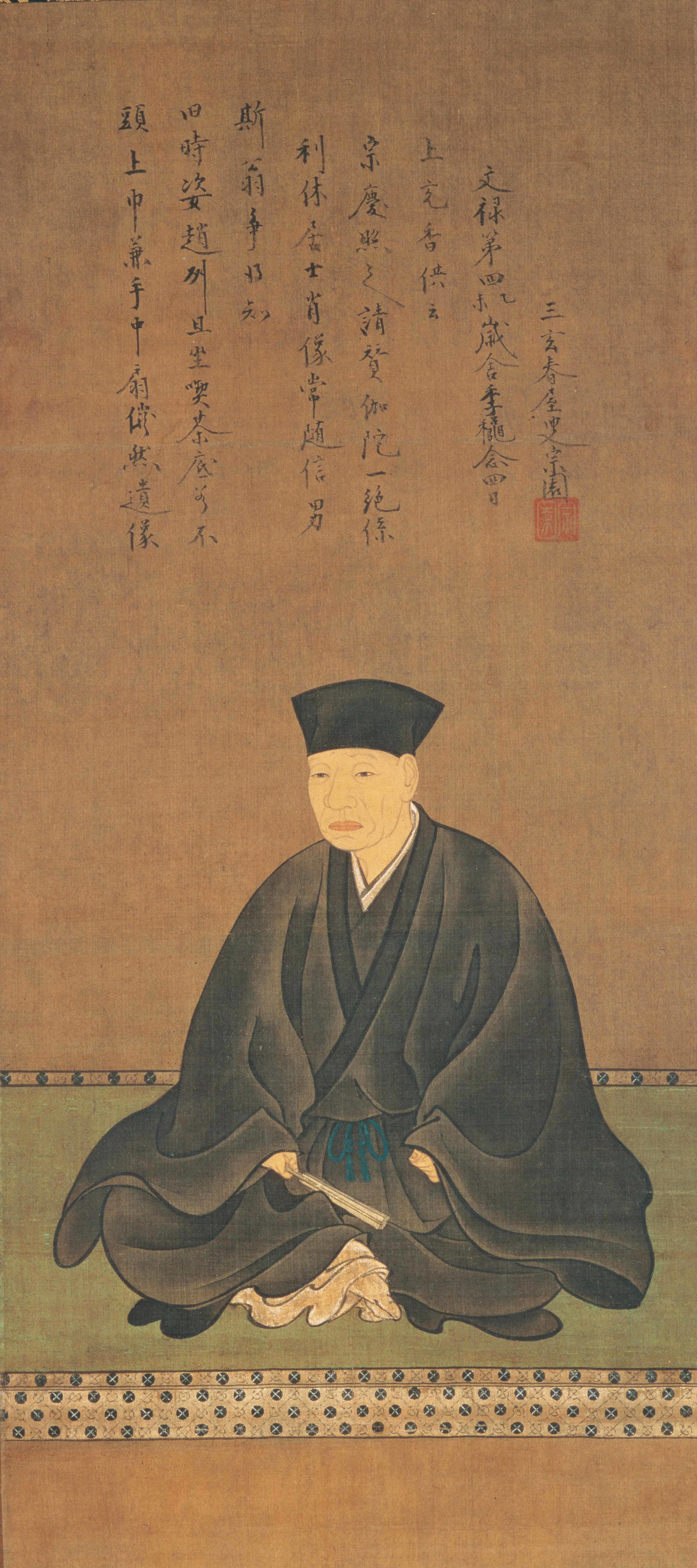 a portrait by Tōhaku Hasegawa (長谷川等伯)(born in 1539 and dead in 1610), calligraphy by Shunoku Sōen (春屋 宗園)(born in 1529 and dead in 1611). Copied from